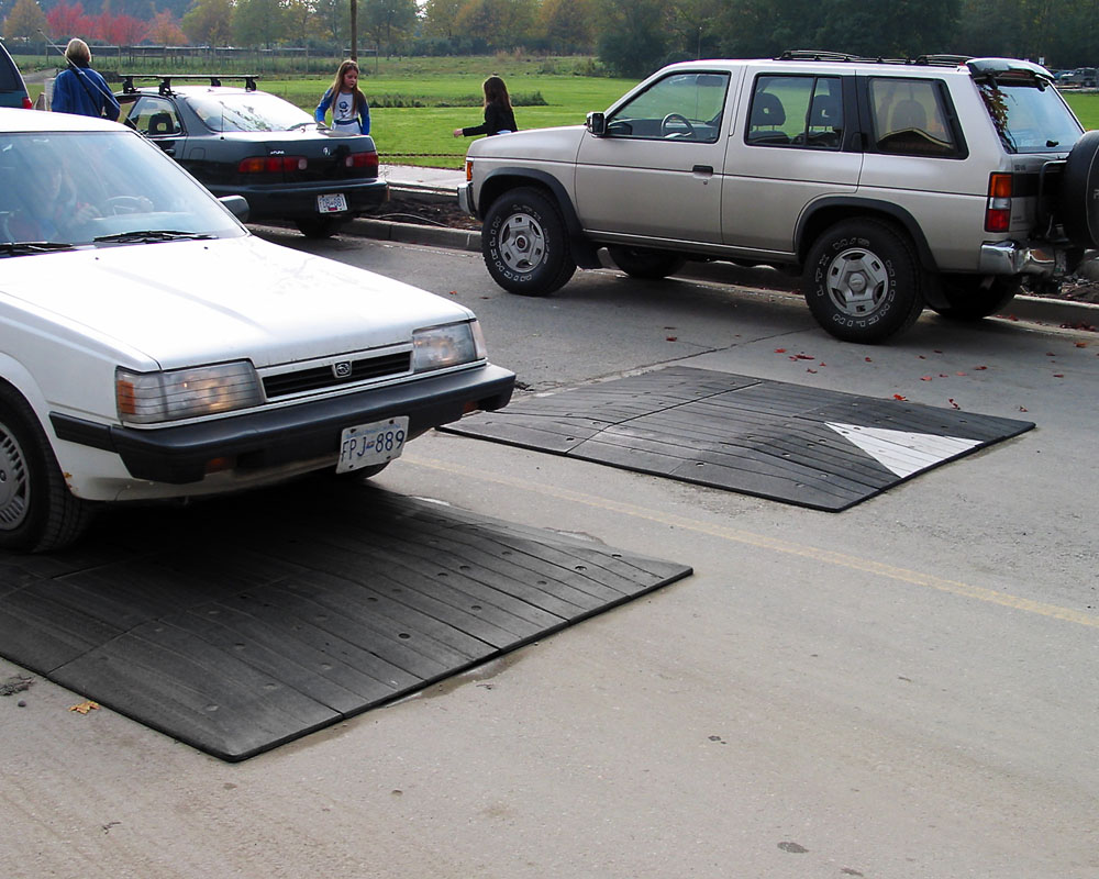 Rubber speed cushions (likely located in British Columbia, Canada)